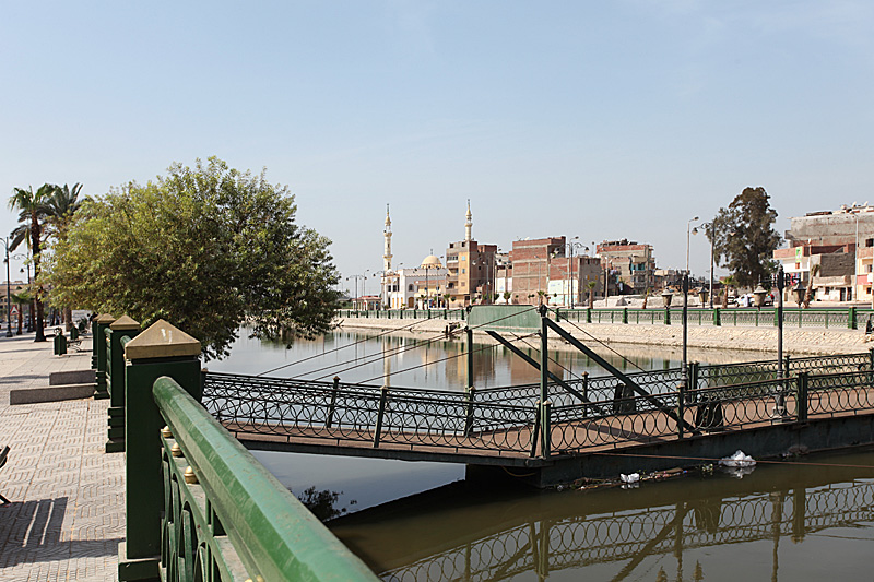 Chanel corniche, Damanhur, Ägypten